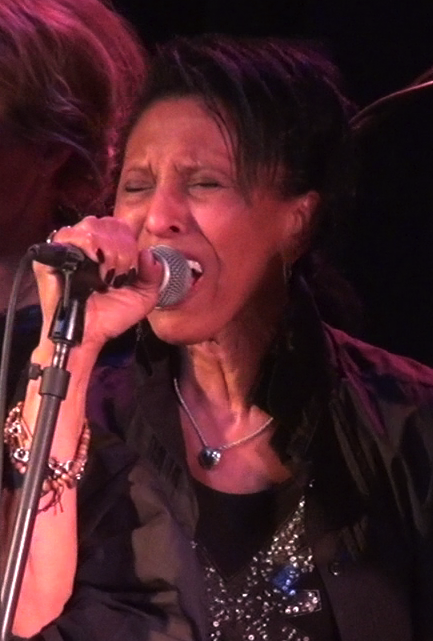 Nona Hendryx performing at the Bowery Poetry Club as part of the Captain Beefheard tribute Best Batch Yet.